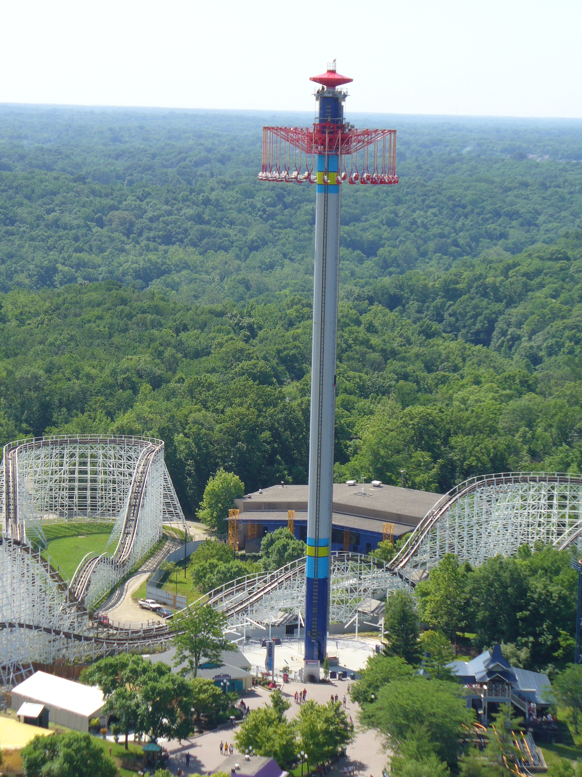 Kings Island's WindSeeker during testing, as seen from the park's replica of the Eiffel Tower.